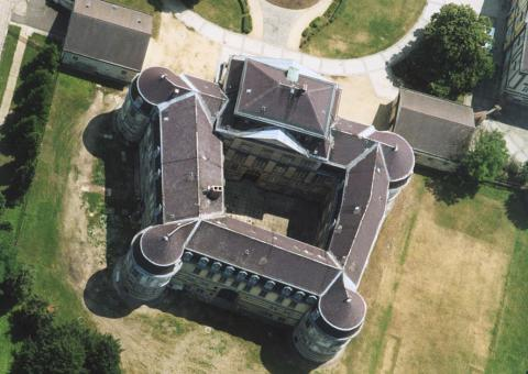 Körmend - castle, Hungary, aerialphotography